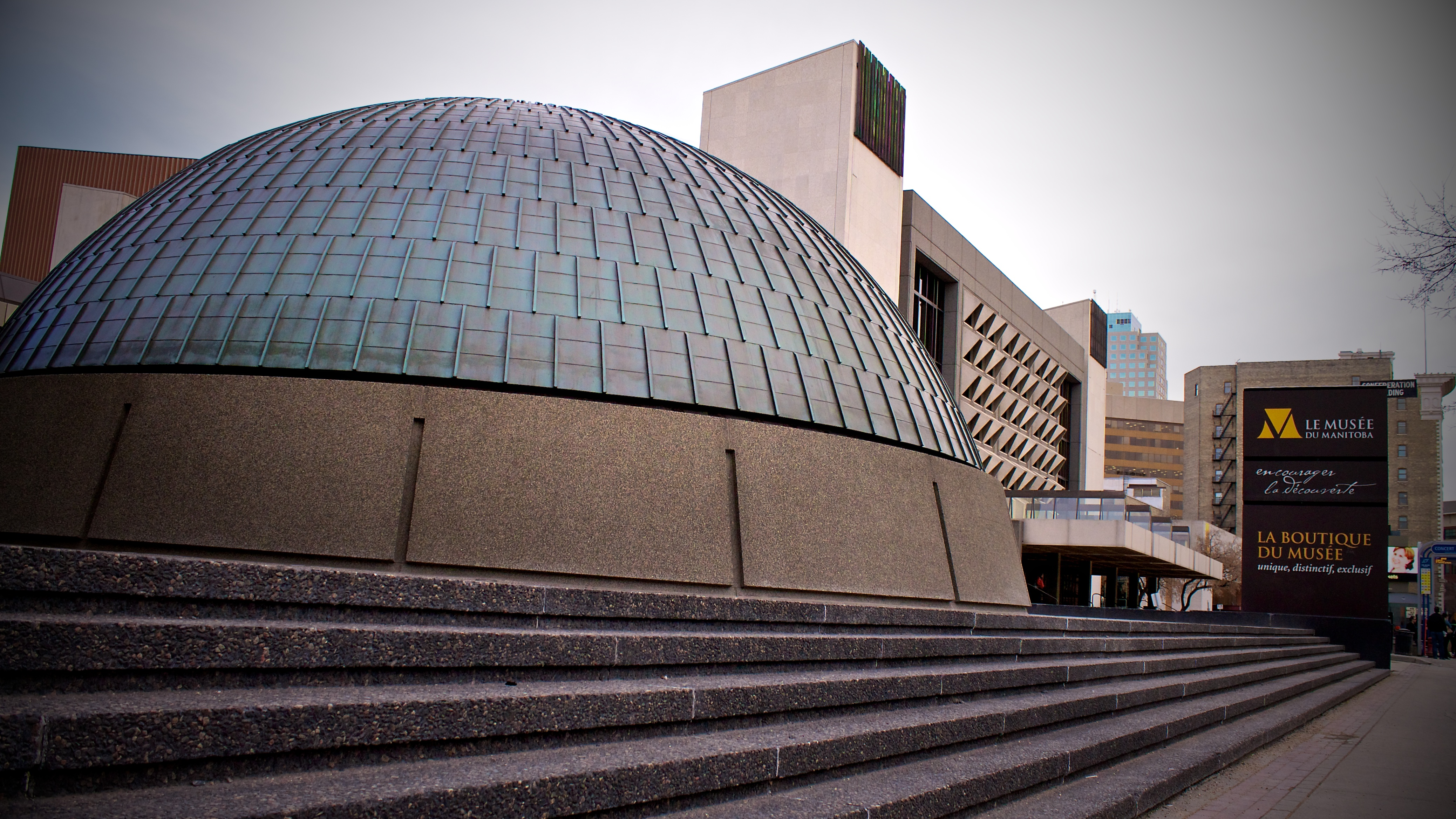 The Manitoba Museum 190 Rupert Avenue and Main Street Winnipeg, Manitoba, Canada manitobamuseum.ca